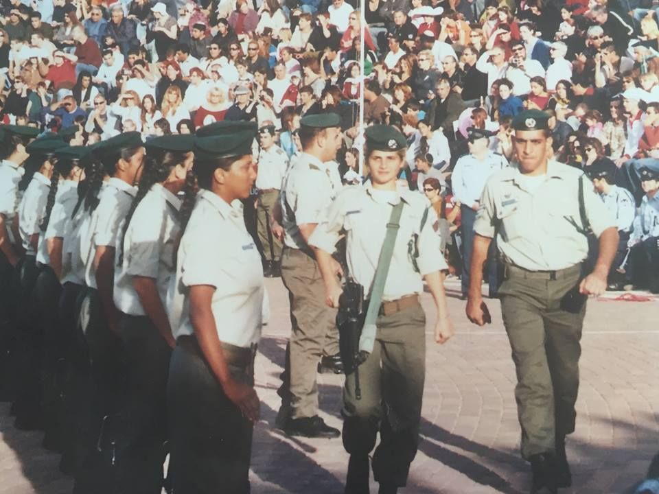 Haskel being promoted to sergeant after completing her commander's course